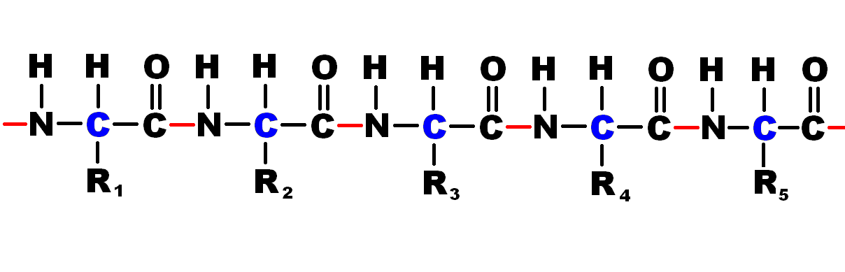 Simplified diagram of a peptide chain showing only five amino acids. Peptide bond is shown in red color, alpha carbon is shown in blue color. R is residue of each amino acid.